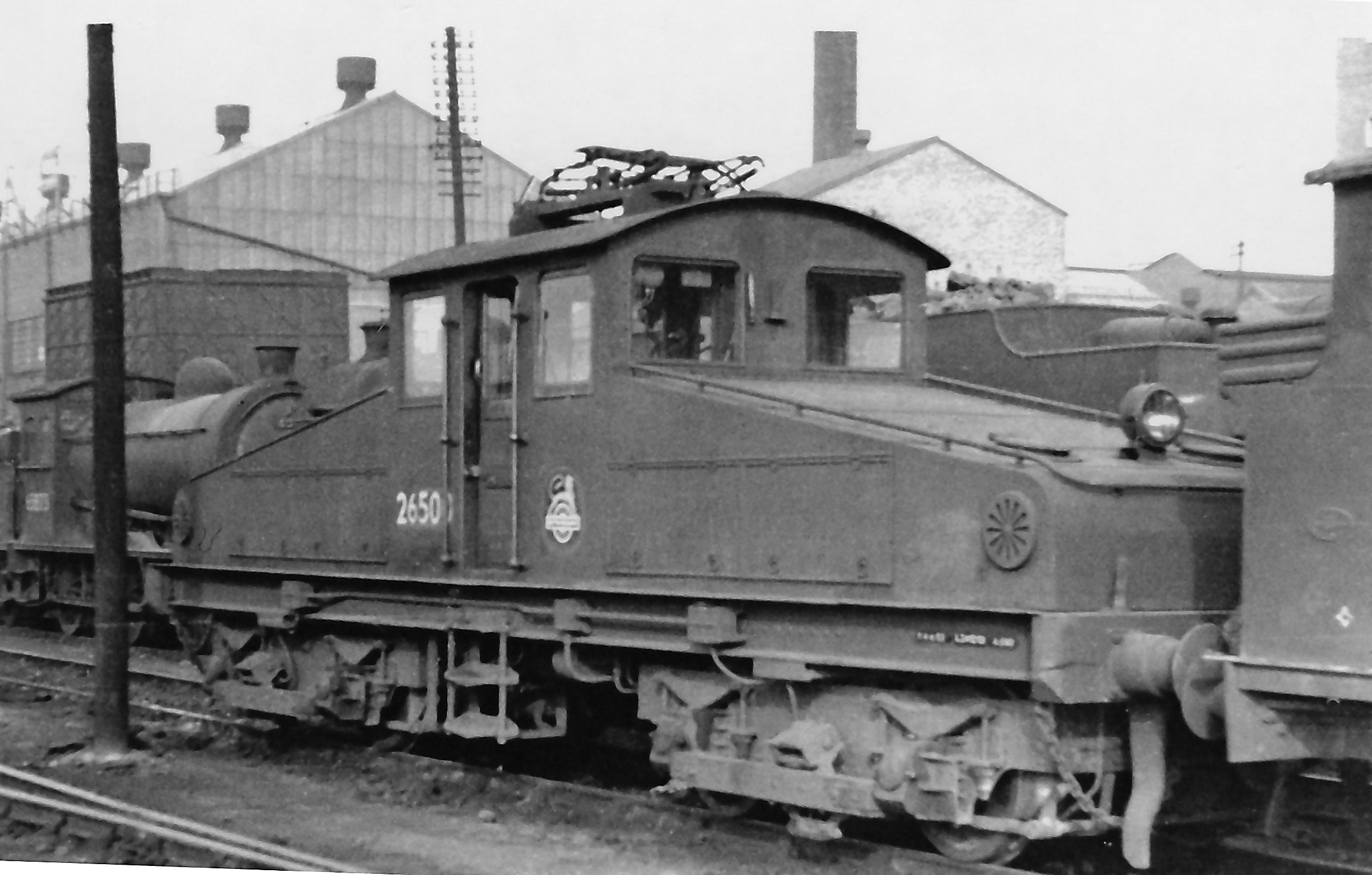 Ex-NER Electric locomotive at Heaton Locomotive Depot. Parked outside Heaton Sheds is No. 26500, one of the two unique 640 hp 0-4+4-0 overhead/3rd rail-equipped locomotives, used on the Quayside Branch from Trafalgar Yard near Manors (Newcastle). They were built by BTH/Brush in 7/1905, numbered 1 and 2 by the LNER (Nos. 6480/1 in 1946), then 26500/1 by BR; they were withdrawn in 9/64.